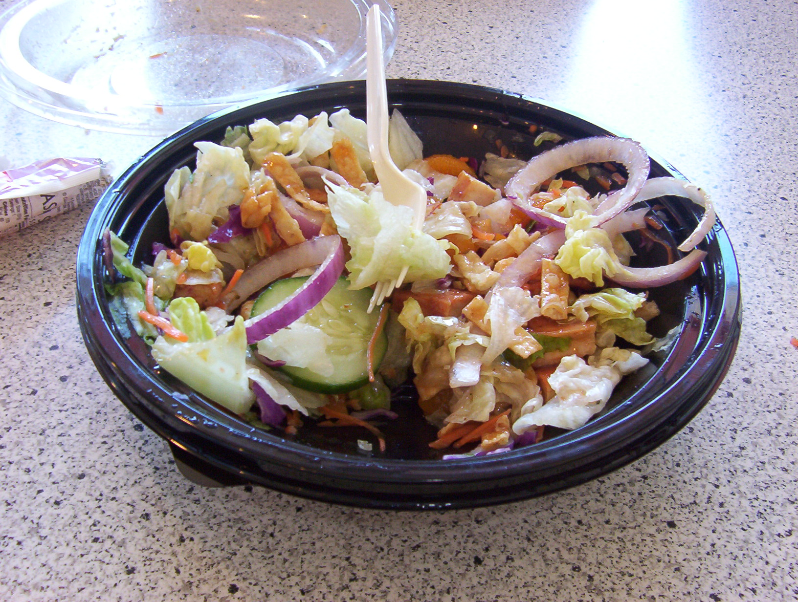 Mandarin Charbroiled Chicken Salad